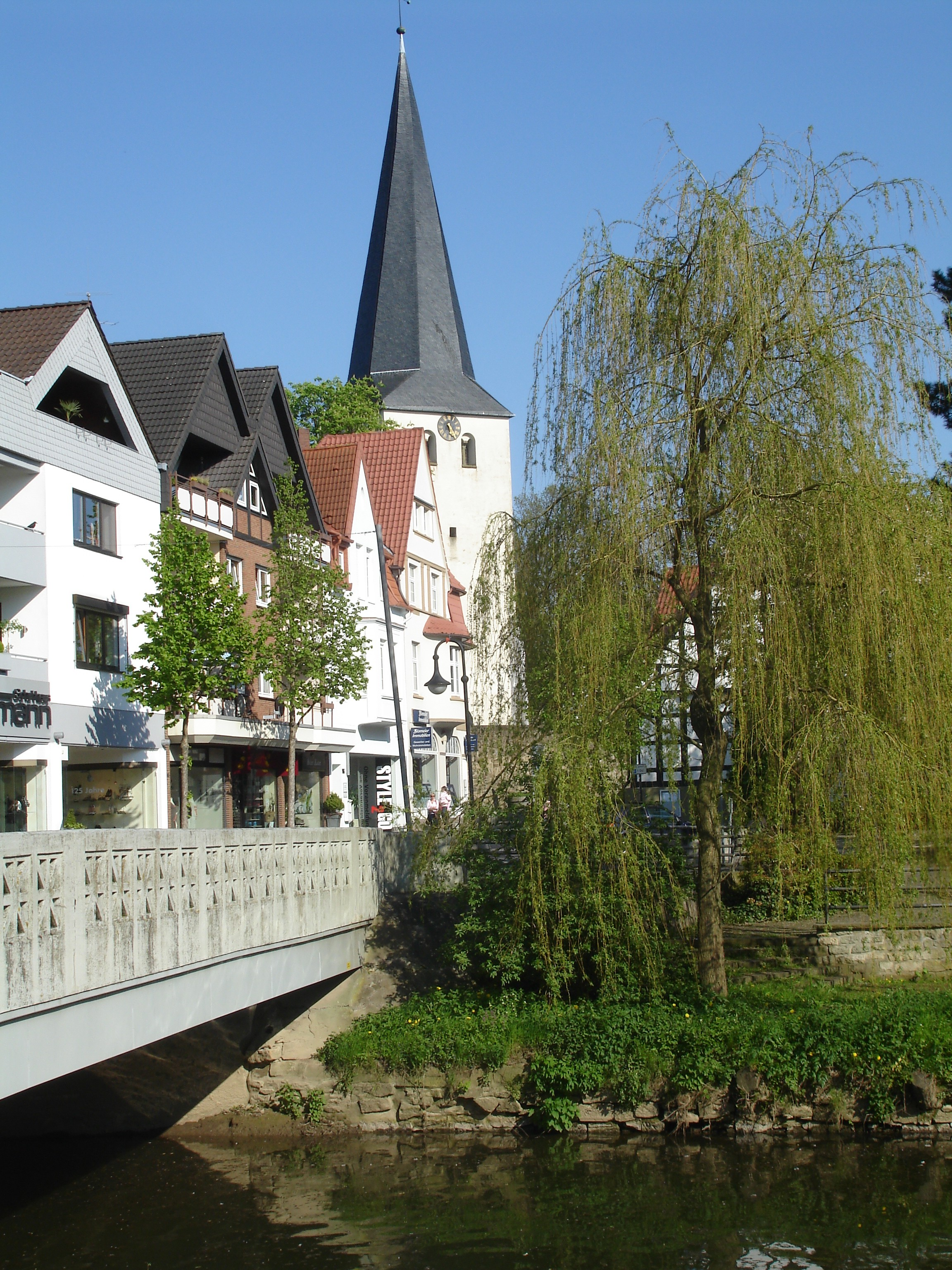 Town of Bünde, District of Herford, North Rhine-Westphalia, Germany: St. Laurentius church.